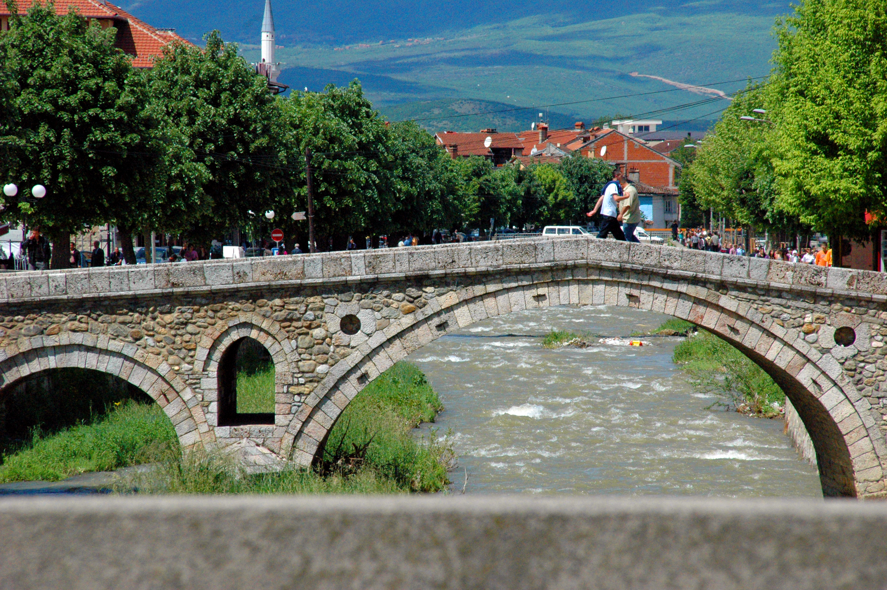 photo: Arian Selmani